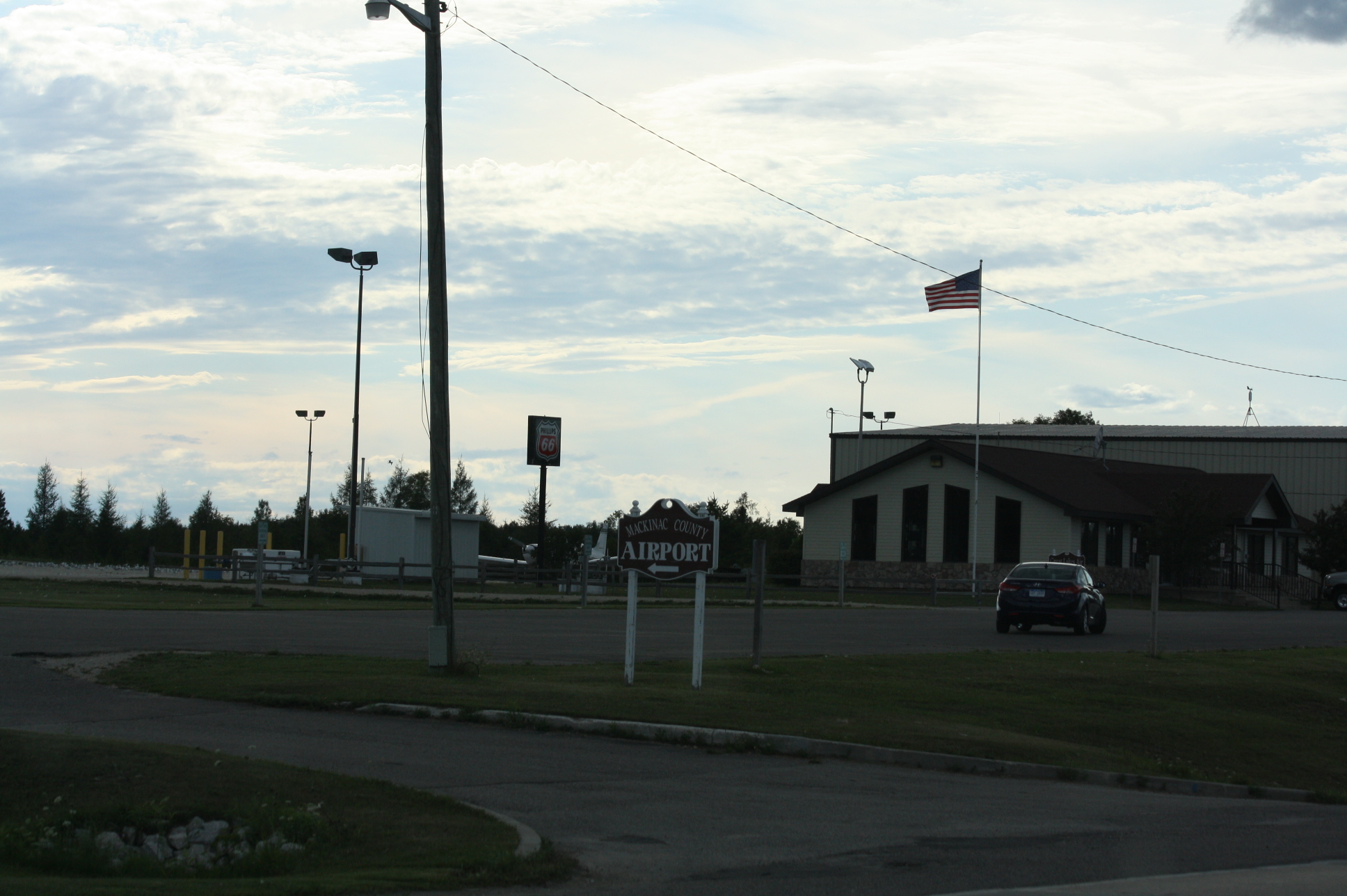 The Mackinac County Airport in St. Ignace, Michigan.